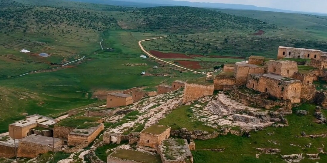 Yazidi village Kharabya in Turkey